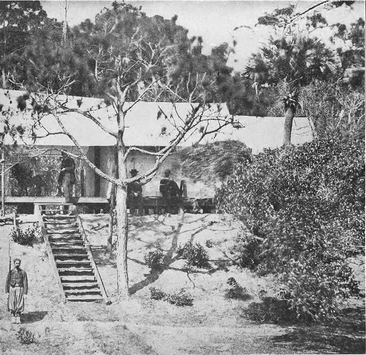 The vivid sunlight in this photograph makes the grass and roof look almost like snow, but the place is Folly Island before Charleston in July, 1863. In the foreground to the left stands one of Rush Hawkins' Zouaves, from the Ninth New York Infantry. He adheres to his foreign uniform, although most of the white gaiters and other fancy trappings of the Union army had disappeared early in '62. But his regiment did good service. It fought at South Mountain, at Antietam, and Fredericksburg, with much scouting and several forced marches before it was mustered out May 20, 1863. The three-years men, after they were assigned to the Third New York Infantry, which was ordered to Folly Island in July, 1863, retained their uniforms when in entire companies. The scene is the headquarters of General Quincy Adams Gillmore, who was promoted to lieutenant-colonel April 11, 1862, for gallant and meritorious service in the capture of Fort Pulaski, Ga., and to colonel, March 30, 1863, for gallant and meritorious service in the battle of Somerset, Ky. He became major-general of volunteers in July, 1863. Note the black shadows cast by the soldier and the tree.